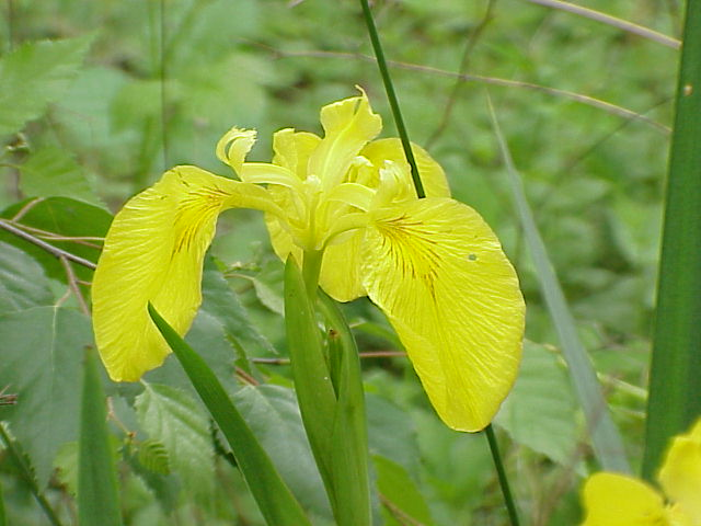 Species: Iris germanica Family: Iridaceae Image No. 3